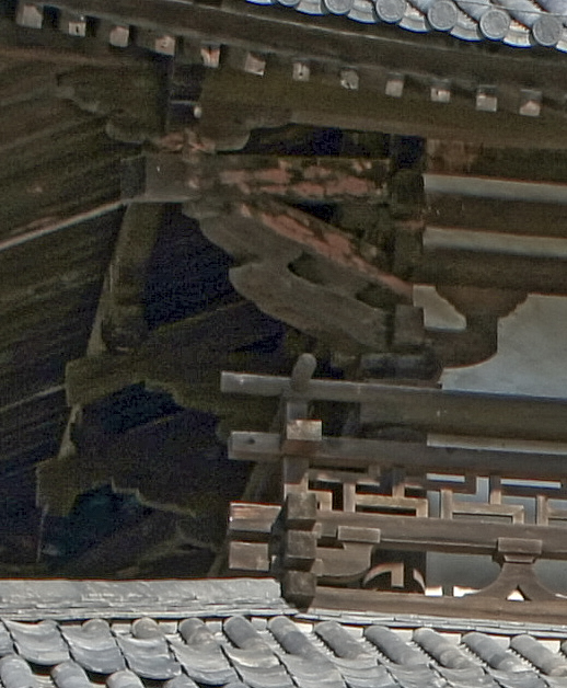 Kumo tokyō, a rare bracket system of the Asuka period